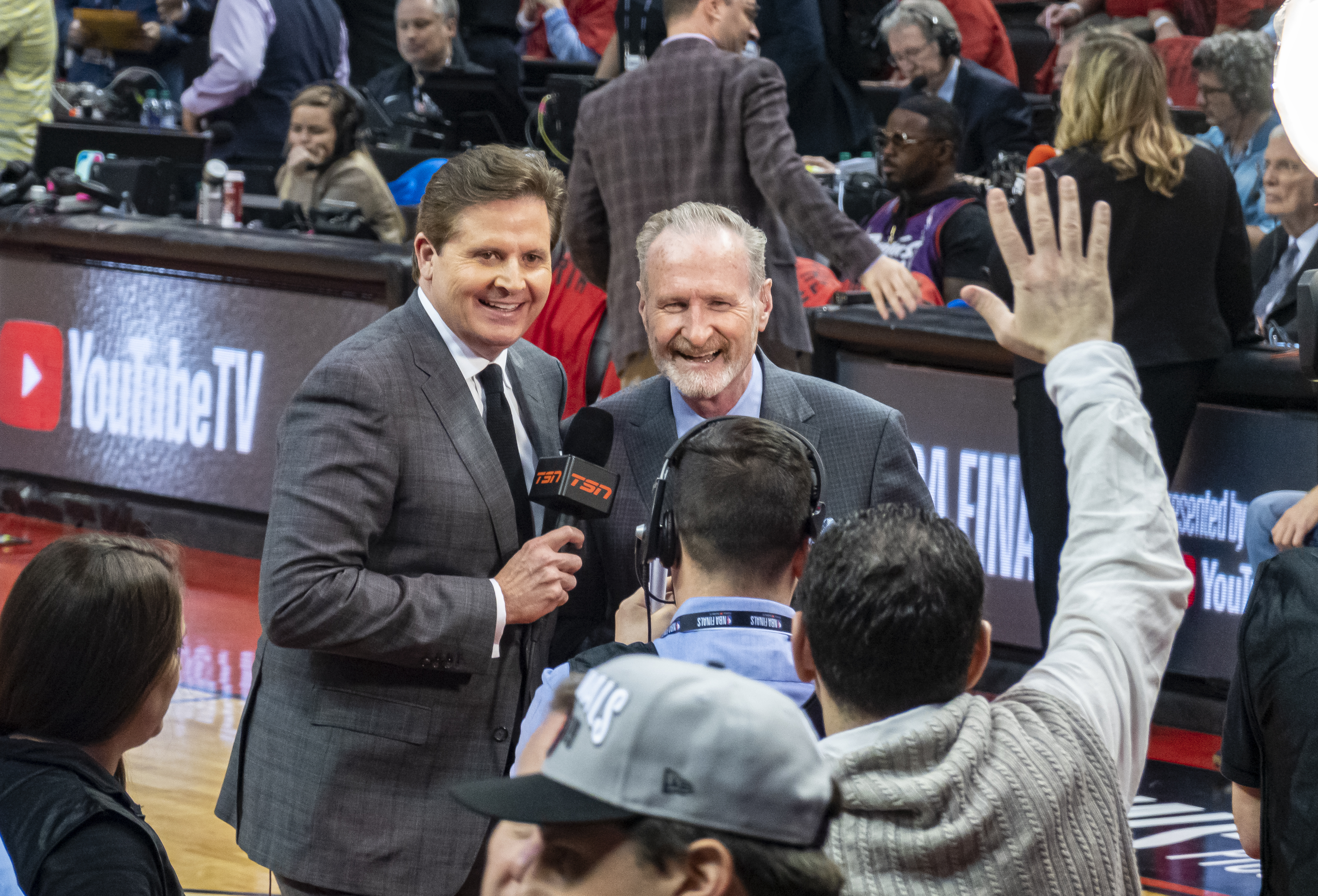 matt devlin jack armstrong 2019 game 2 2019 nba finals toronto raptors v golden state scotiabank arena